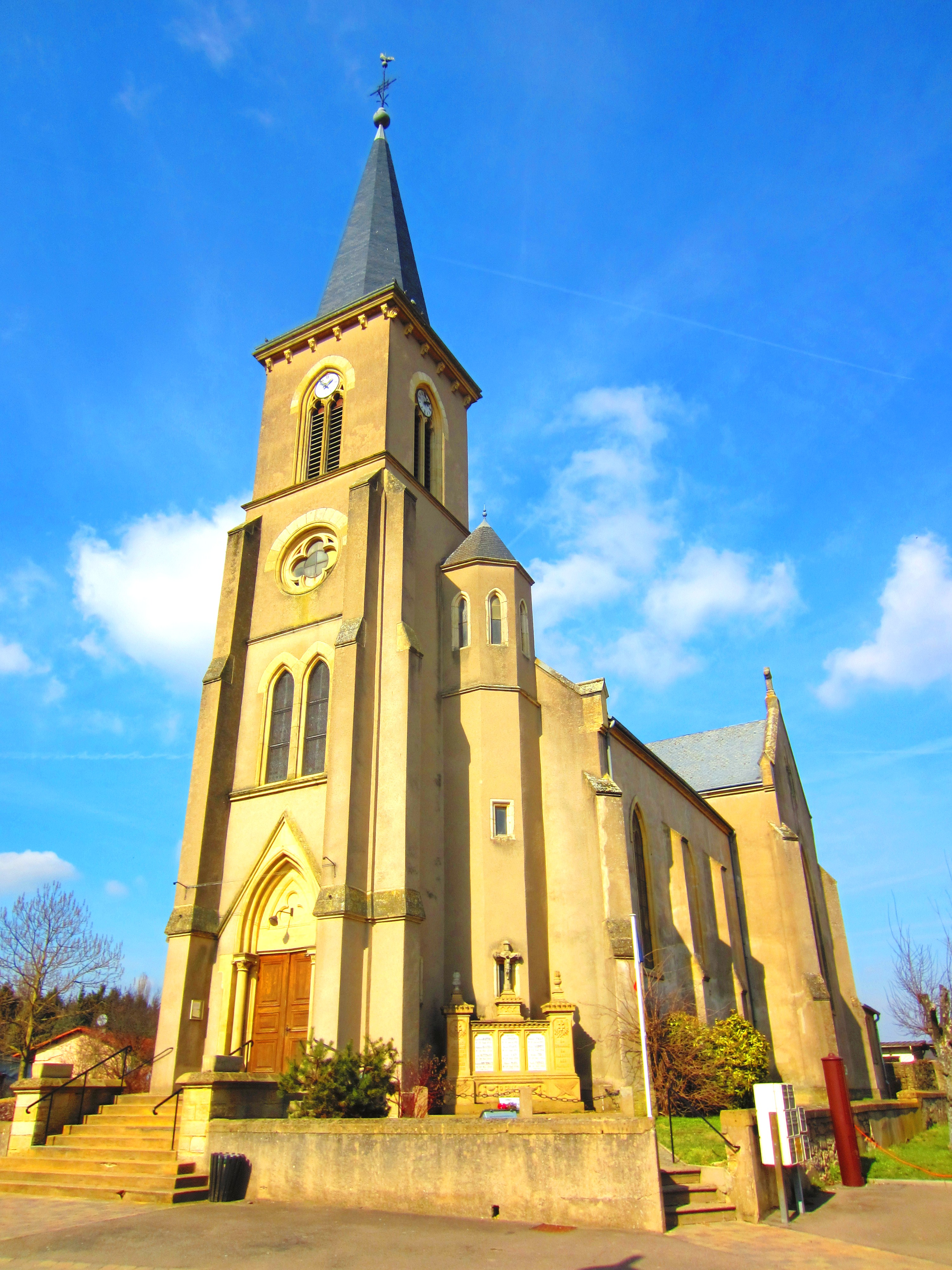 Church of Zoufftgen (Moselle, France).